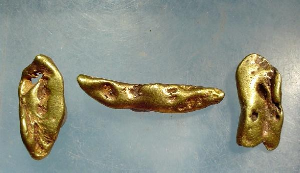 Gold Locality: Mother Lode (Mother Lode belt), Tuolumne County, California, USA (Locality at ) Size: 3.0 x 0.6 x 0.3 cm (largest). A fine 3-piece set from the Mother Lode District of California. Three large, sculptural, flattened to rounded, river-worn gold nuggets with rich gold lustre and color comprise this lot. The taller/longer, rounded nugget looks like a dented canoe with upturned prow and stern. The leaf-like nugget with the hole is gorgeous on both sides.